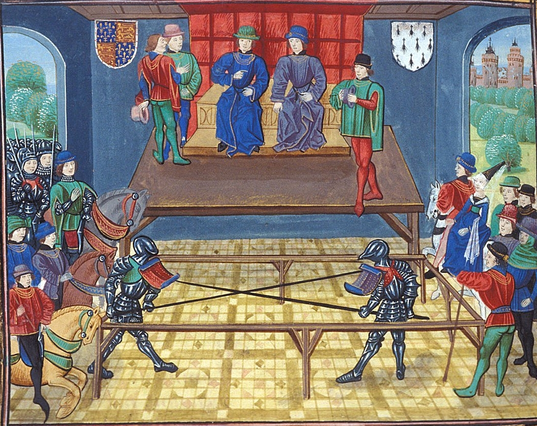 Jousting in Vannes (Brittany). The Earl of Buckingham (Thomas of Woodstock) and the Duke of Bretagne (John IV/V "The Conqueror", d.1399)).